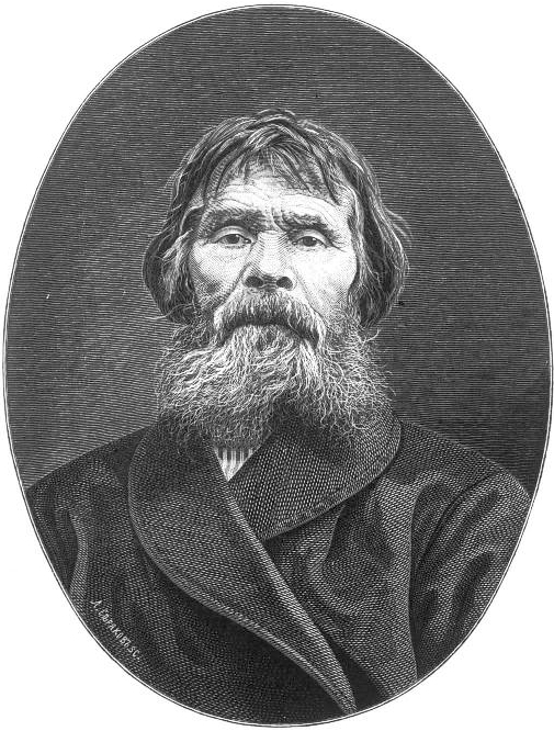 Trofim Ryabinin